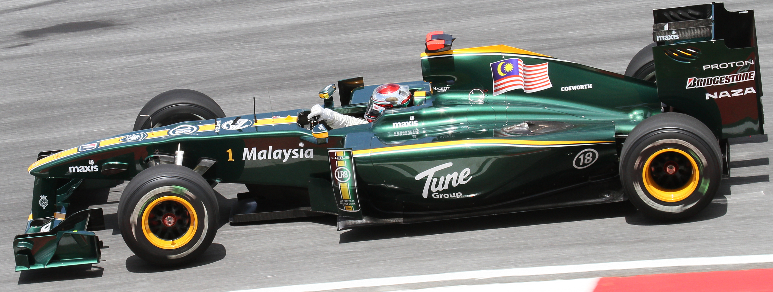 Formula One 2010 Rd.3 Malaysian GP: Jarno Trulli (Lotus) during Friday 2nd Free Practice session.